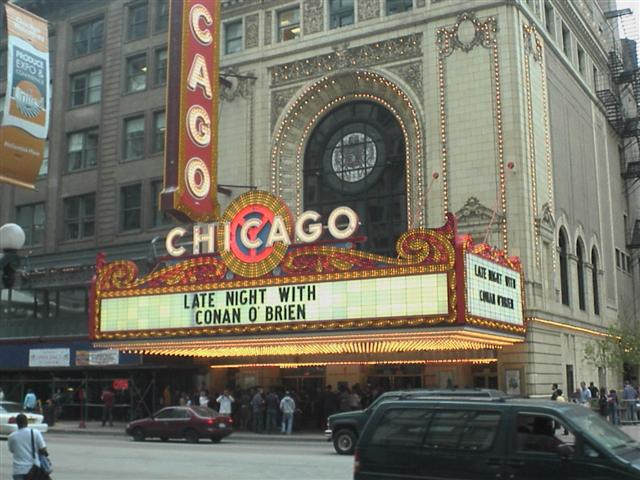 Conan invades Chicago Theater